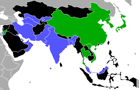 Football at the 2010 Asian Games participants Entered in both competition. Entered in men's competition only. Did not enter. Ineligible in Asian Games Football.